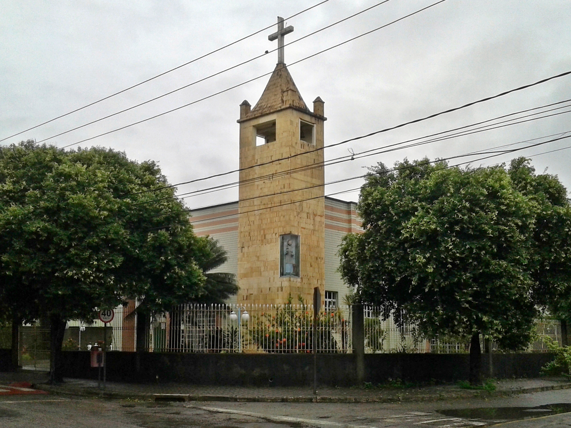 Partial view of the Saint Joseph the Worker church in the Amaro Lanari neighborhood, in Coronel Fabriciano, Minas Gerais, Brazil.